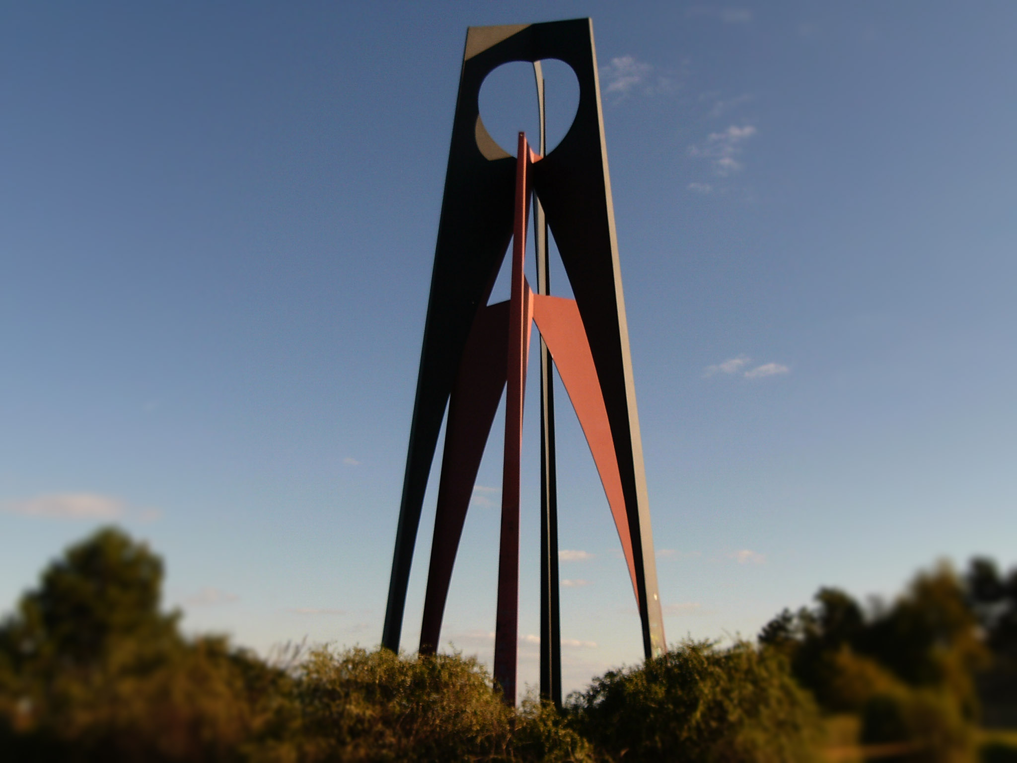 Dunaujvaros, Hungary